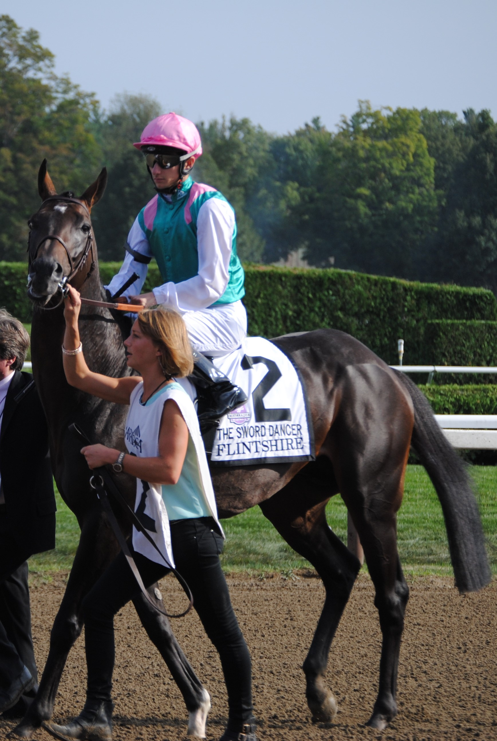 Flintshire, ridden by Vincent Cheminaud, in the post parade for the 2015 Sword Dancer